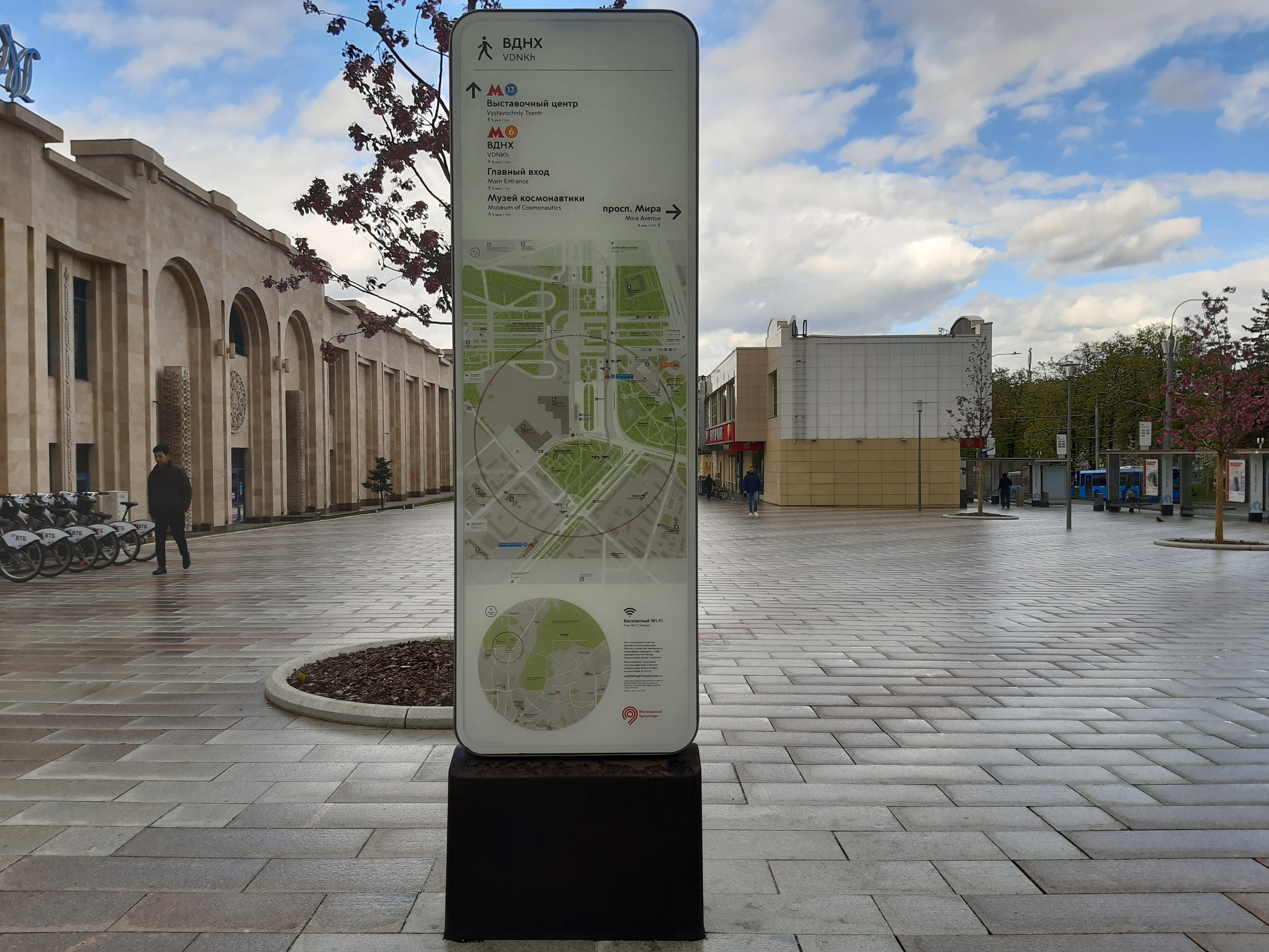 Moscow has a new, consistent directional signage system that includes all types of city transport. It allows residents and tourists to identify their location and plan the best routing on consistent maps.